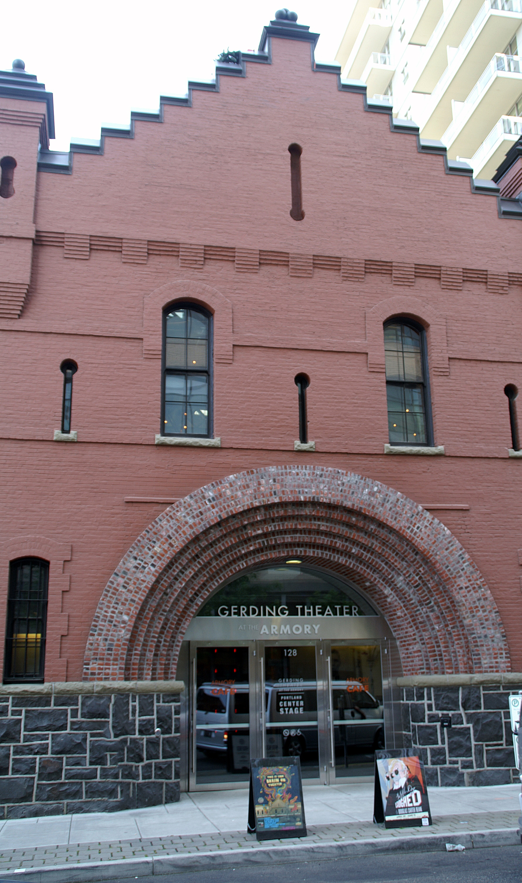 Portland Armory - Portland Oregon -- 2008 May